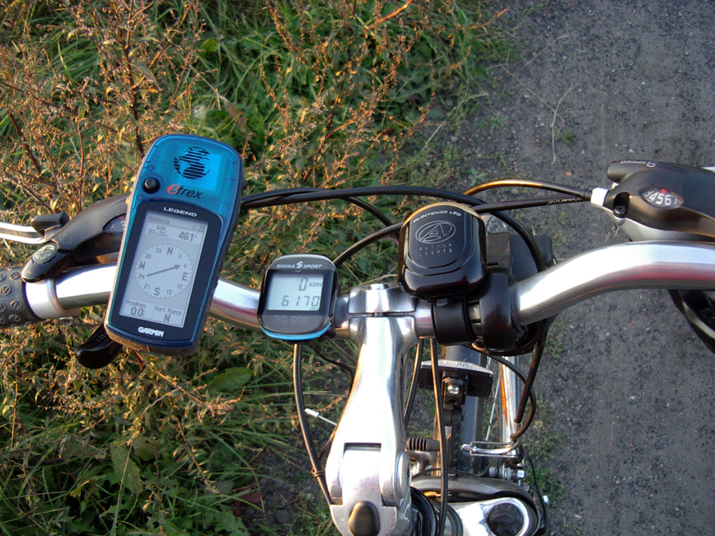 bicycle + Garmin eTrex Legend + Sigma Sport